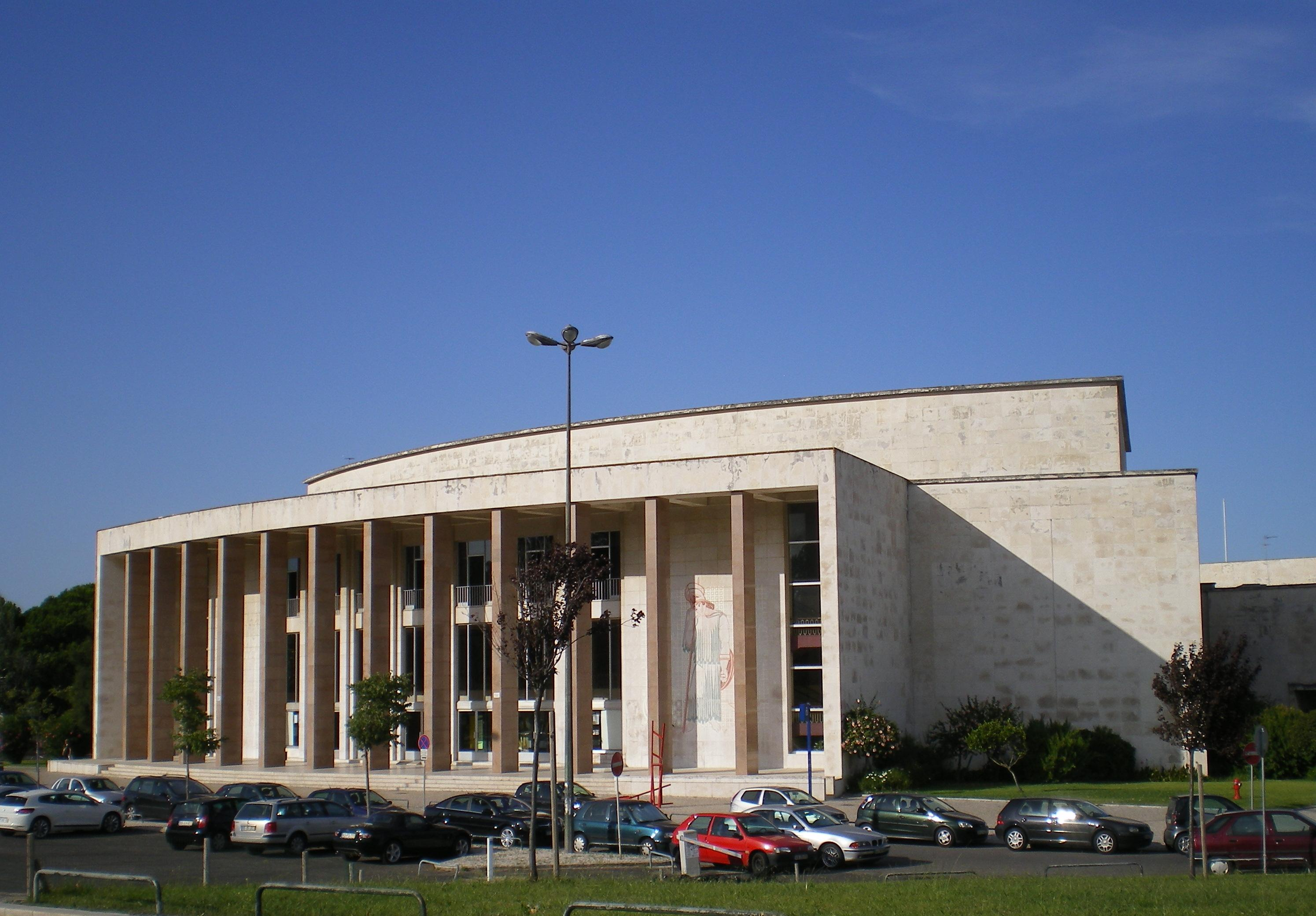 University of Lisbon